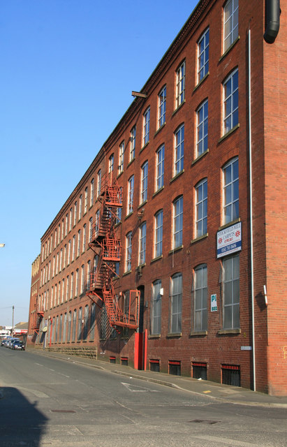 Stockfield Mill, Chadderton This shows three distinct periods of construction down this side. Built 1862, taken over and extended 1884 and extended again in 1912 and 1923. The engine house in the distance has a cast iron lintel dated 1912. Mill closed 1954 and in multiple occupancy.